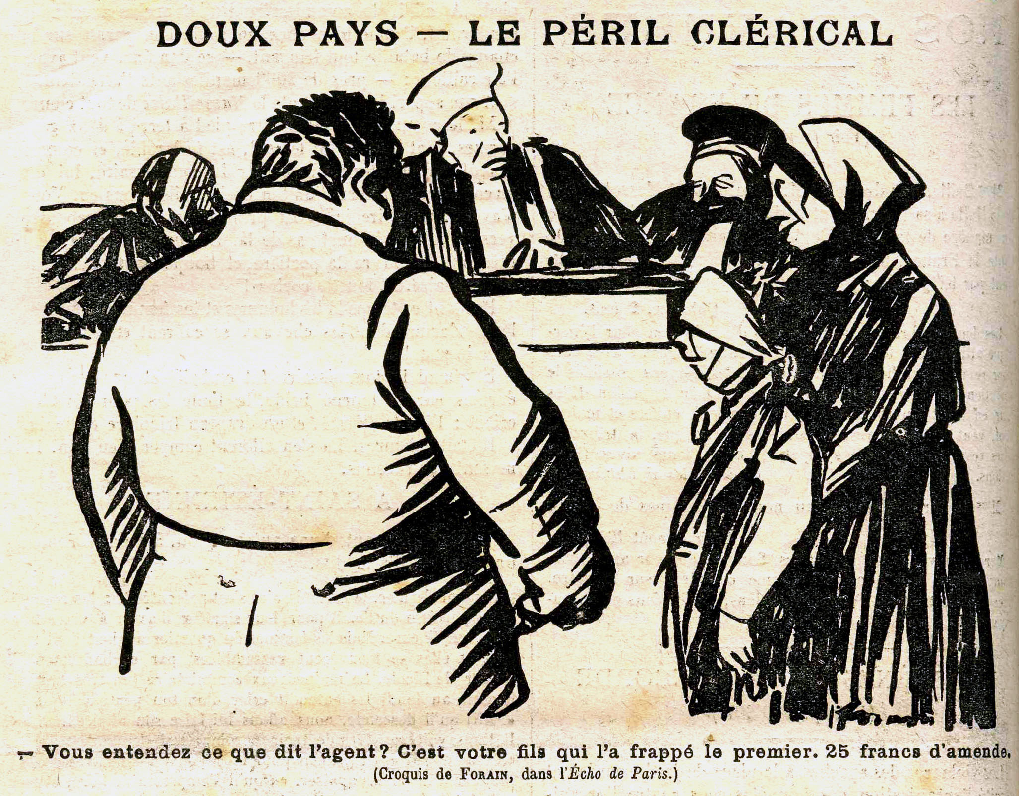 Drawing by French painter and caricaturist Jean-Louis Forain